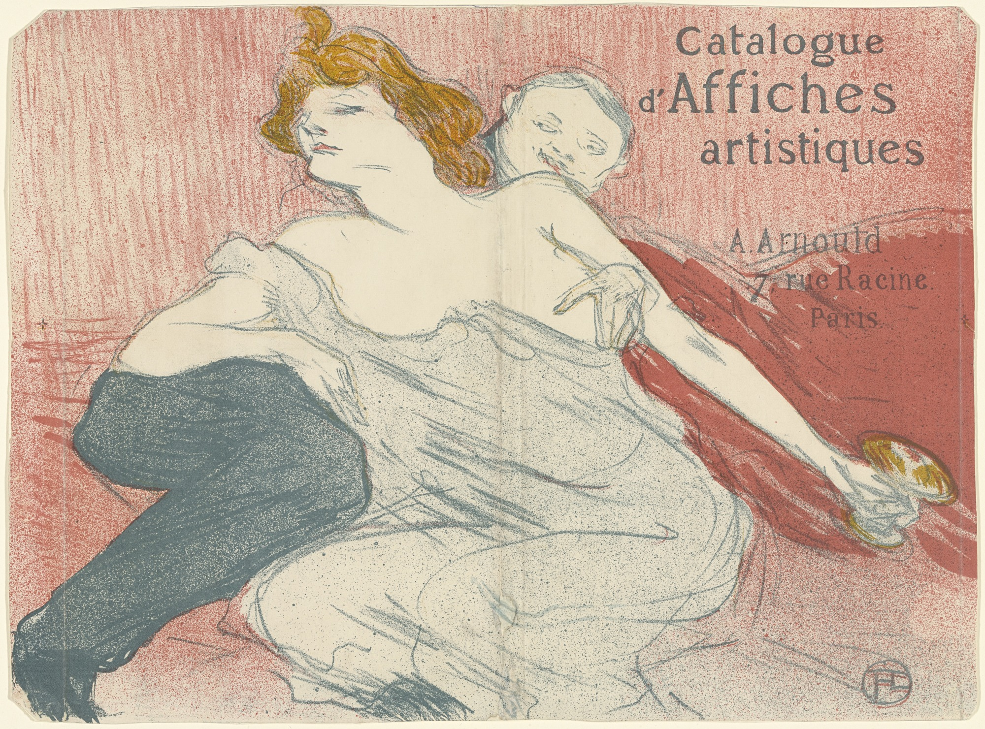 Débauche avec Dethomas (deuxiéme planche) c. June, 1896 - H. T. Lautrec Cover of Catalogue d'Affiches Artistiques, opening June, 1896. Print, Technique: crayon, brush and spatter lithograph printed in three colours Edition: edition 100 Primary Insc: Signed l.r., on stone in monogram "HTL". Not dated comp 23.6 h x 32.4 w cm sheet 28.2 h x 38.4 w cm Cat Raisonné: Witrock 167 The indifferent woman is an unidentified prostitute; the lecherous man is suggested to be Maxime Dethomas.